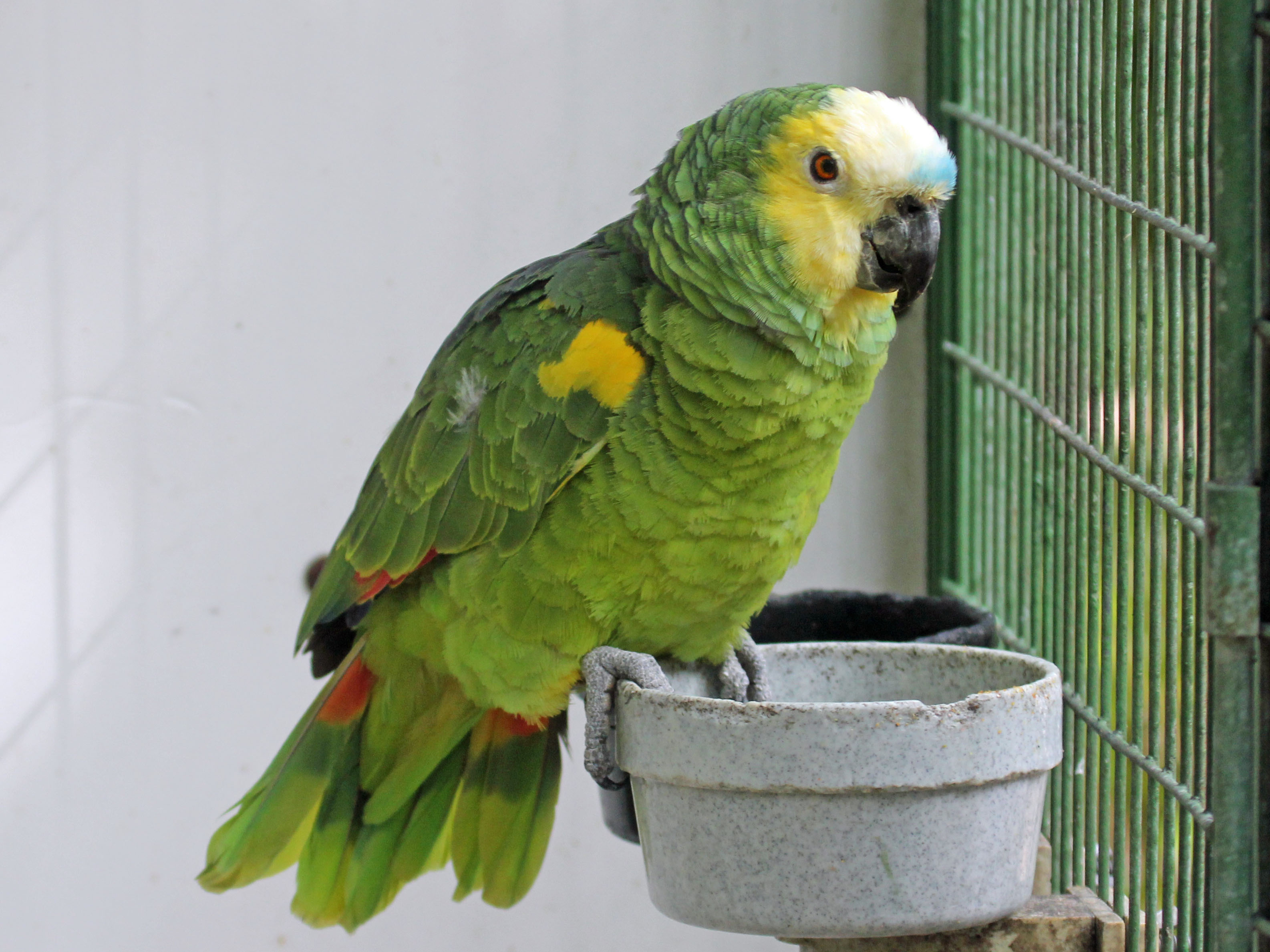 Blue-fronted Amazaon at Jungle Island of Miami.